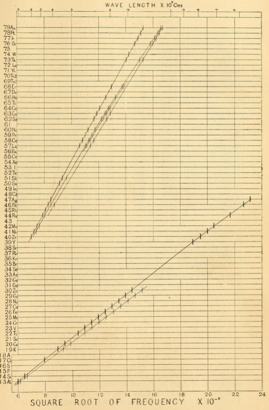 Moseley's_law